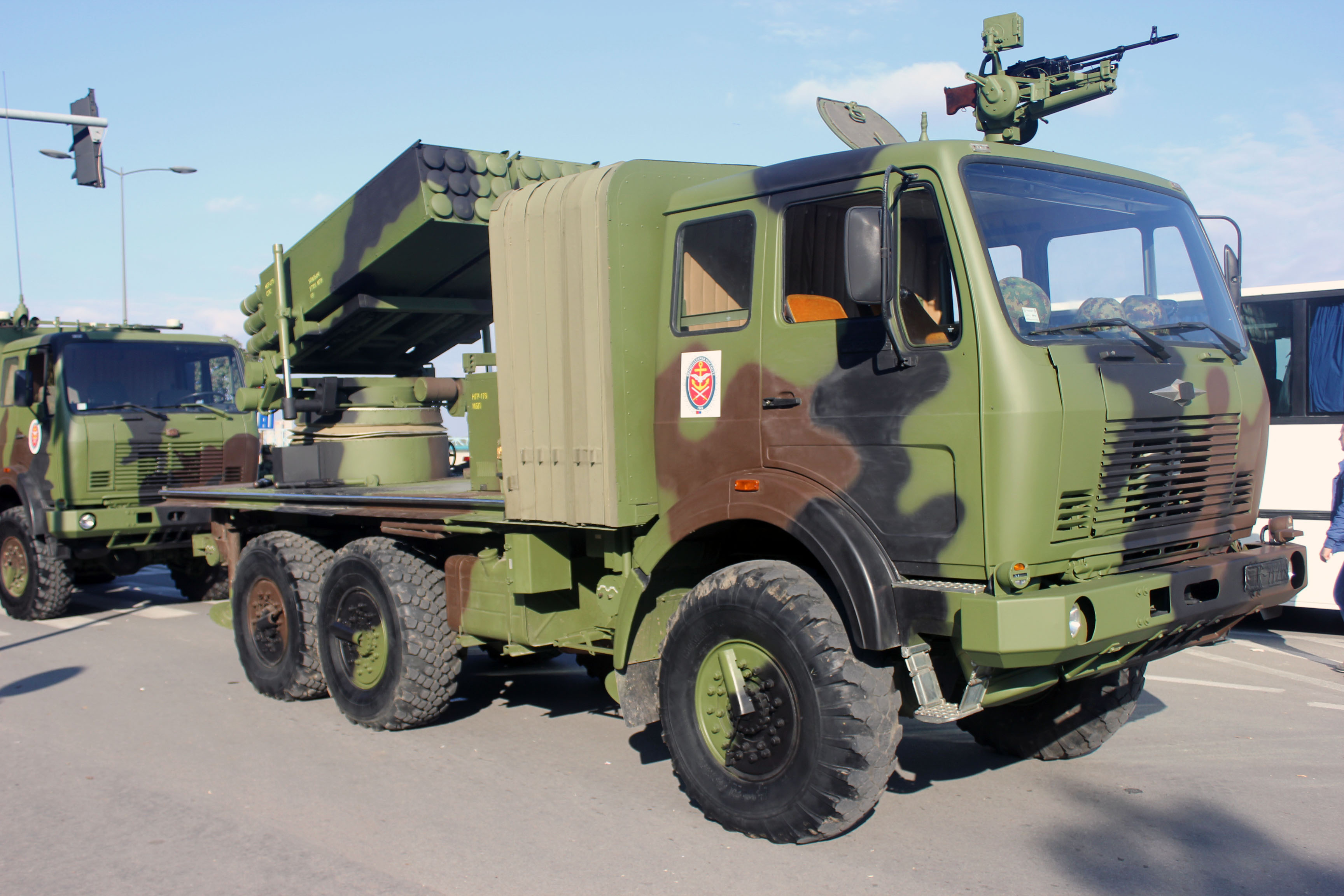 Modernized modular M-77 Oganj MLRS on display at Novi Sad after WW2 liberation parade.